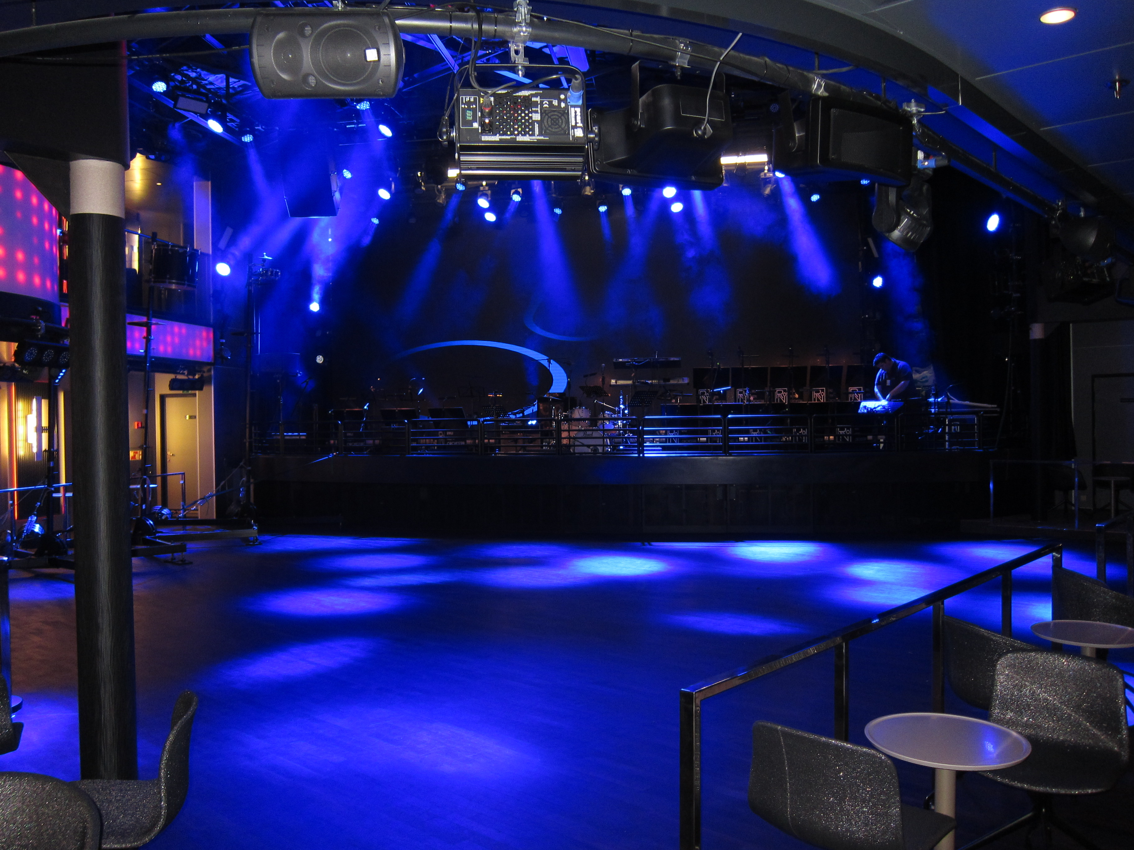 Two-storey nightclub Club Vogue located in the aft of cruiseferry MS Viking Grace owned and operated by Finnish shipping company Viking Line Abp. Seating over 1 000 guests and 50 m² LED wall at the back of the stage.